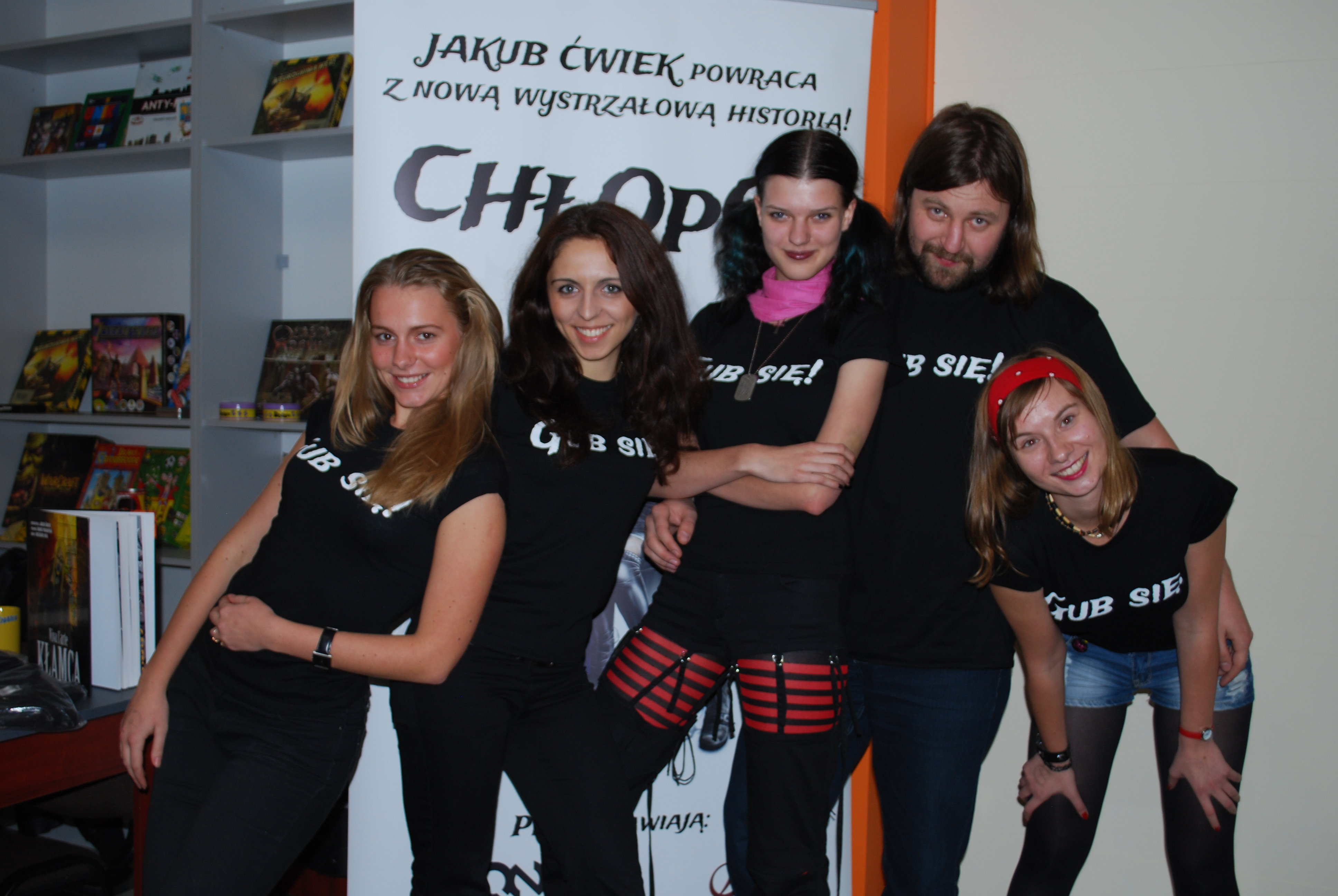 Jakub Ćwiek and his lovely hostesses during The Rock & Read Festival 2012.